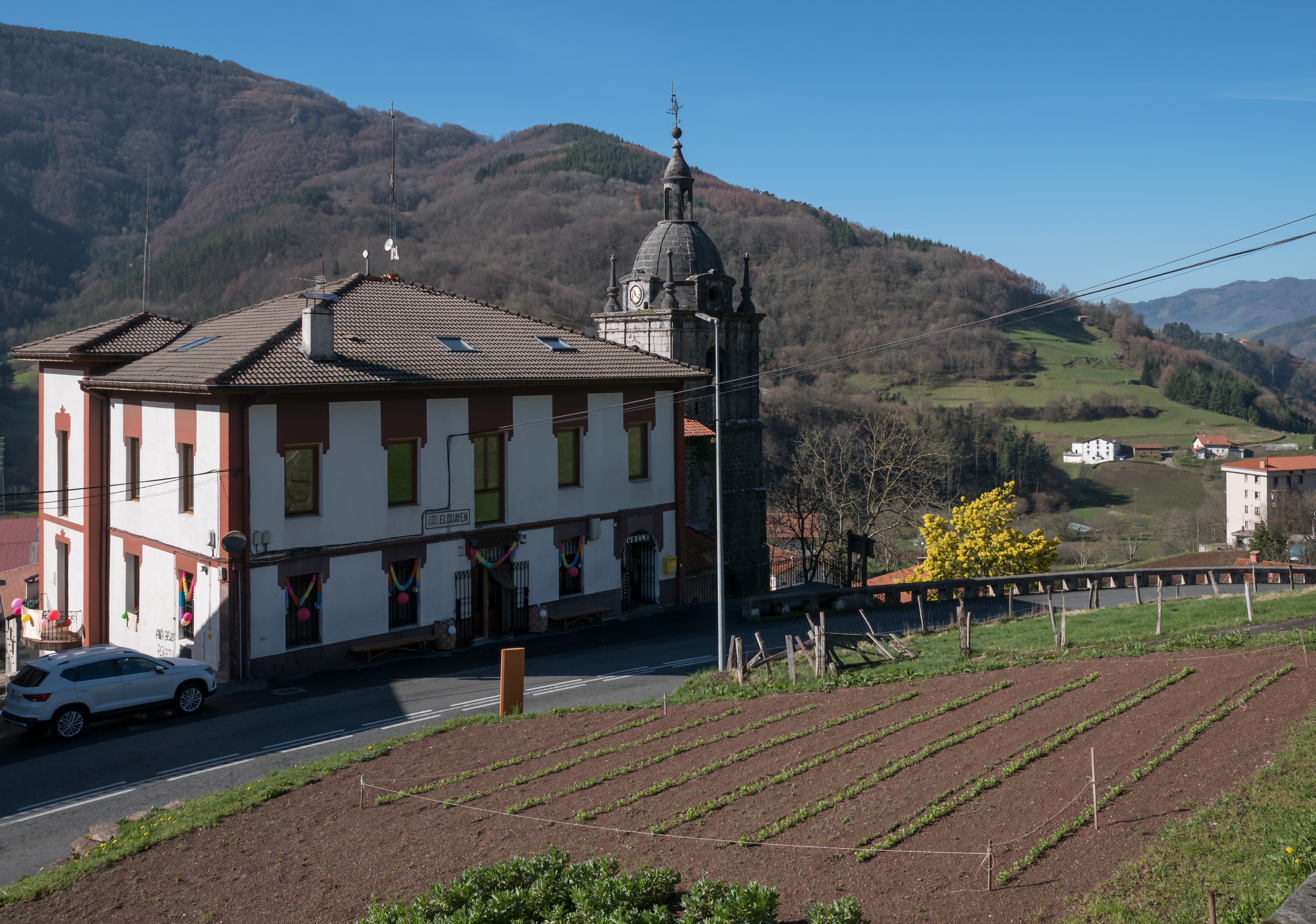 Town hall of Elduain, church tower. Gipuzkoa, Basque Country, Spain